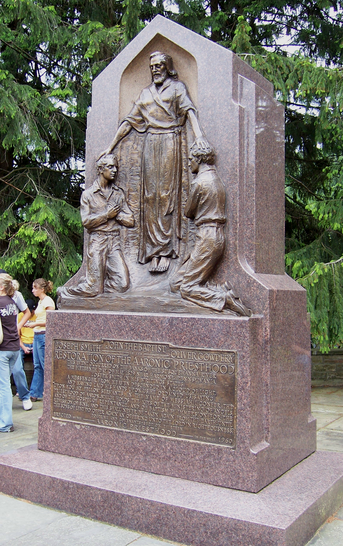 A monument commemorating the restoration of the Aaronic priesthood, which is located in Oakland Township, Pennsylvania, United States (historically Harmony Township). The monument was placed at the Aaronic Priesthood Restoration Site in 1960 by The Church of Jesus Christ of Latter-day Saints.